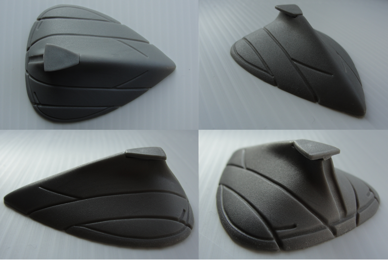 Plastic model of a racing sled from the CyberRace computer game. This model was part of the game package. Actual size approx. 2 in wide and 2.5 in long.